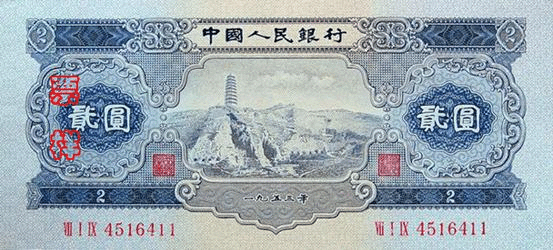 Front of second series 2 yuan renminbi